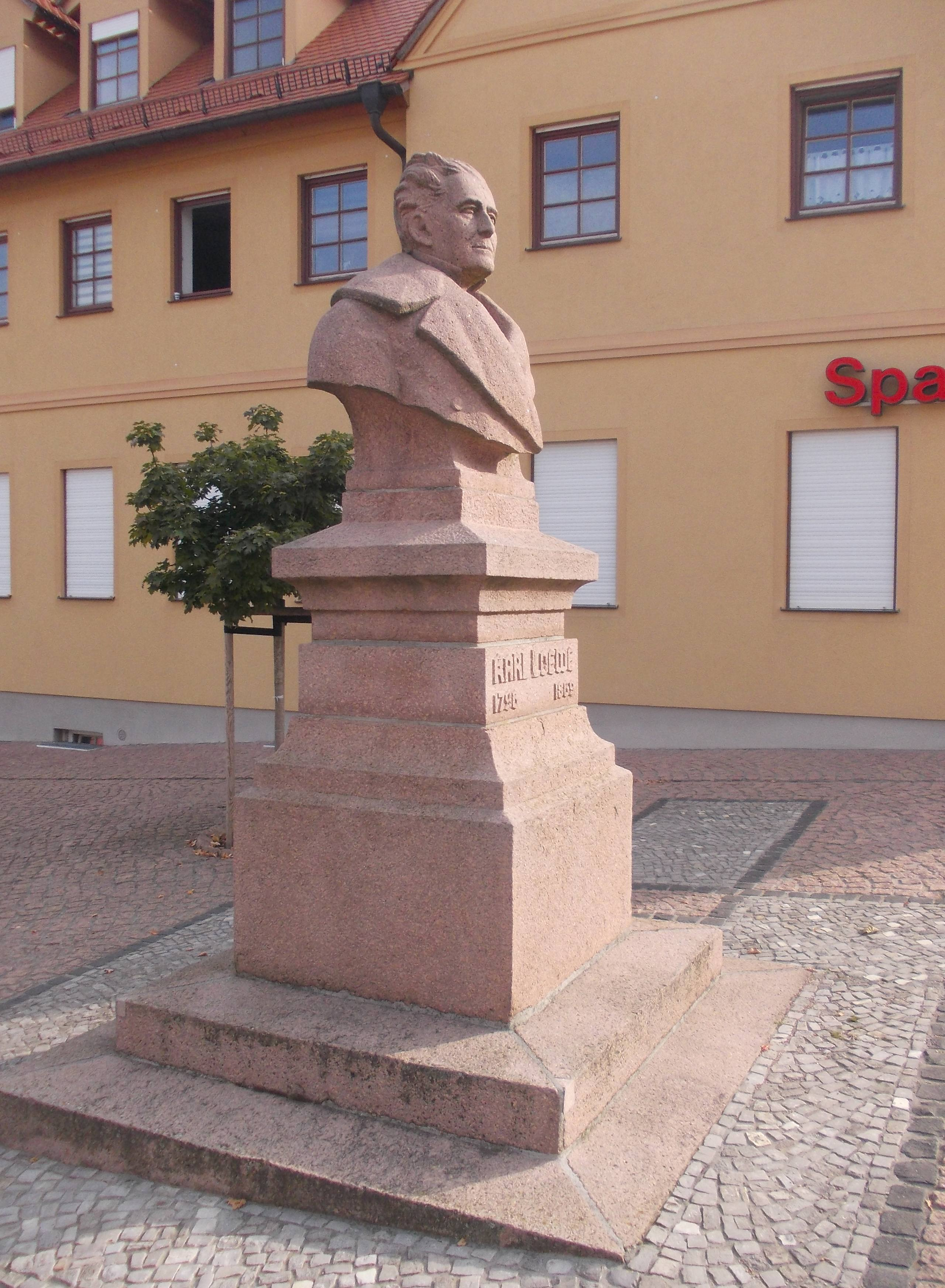 Memorial to the composer Carl Loewe in the market square of Löbejün (Wettin-Löbejün, district: Saalekreis, Saxony-Anhalt)